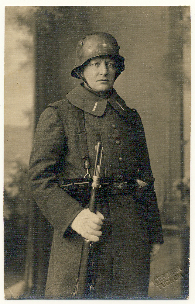 Guido Maydell in the Baltic Landeswehr